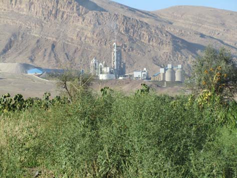 نمایی از کارخانه سیمان آذرآبادگاه خوی که در شمال غربی روستای قزقلعه قرار دارد